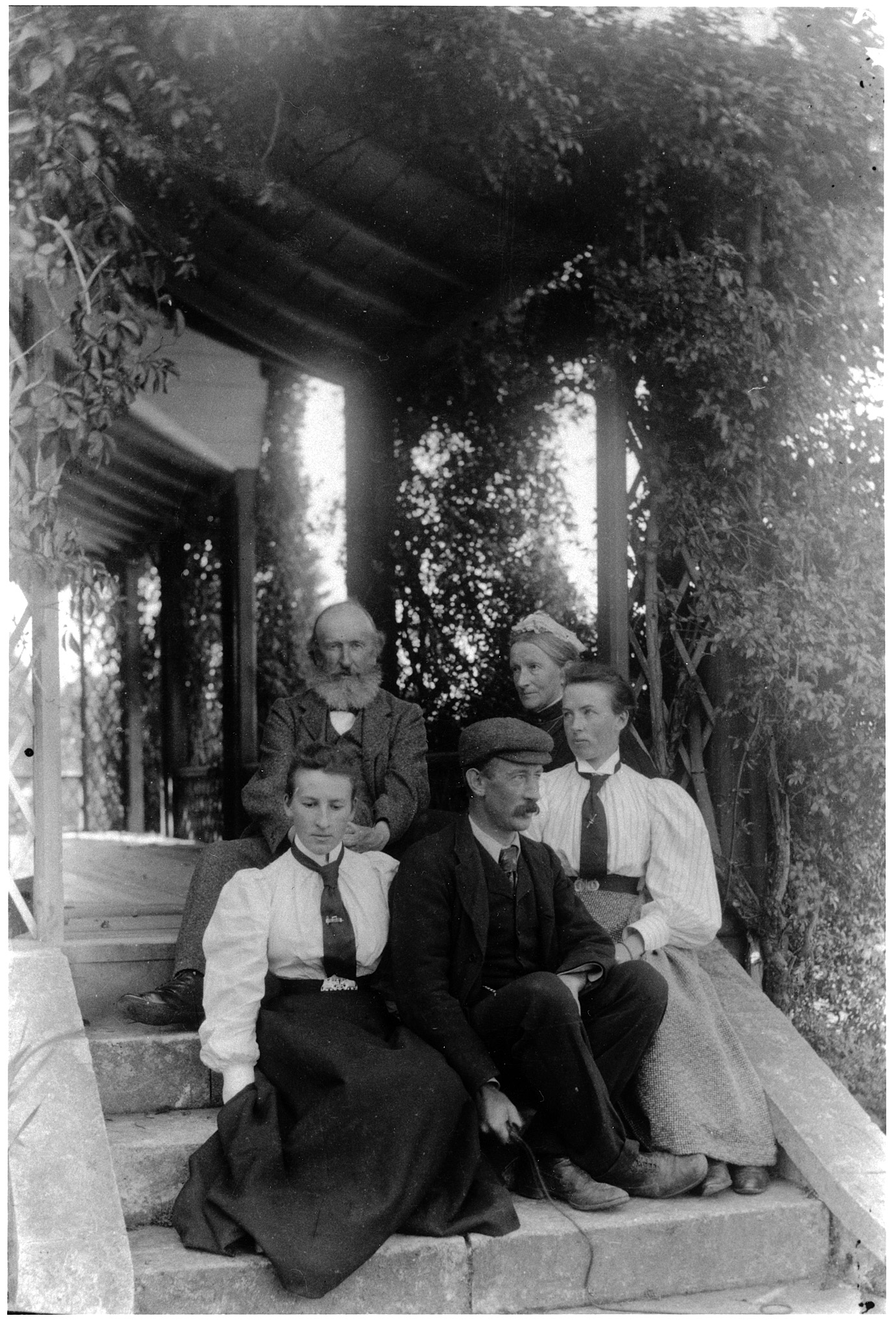 Pictured from left: Rosa Acland, J.B.A. Acland, John Acland, Emily Acland and Bessie Acland on steps of Mt Peel Station Homestead, c.1890s.